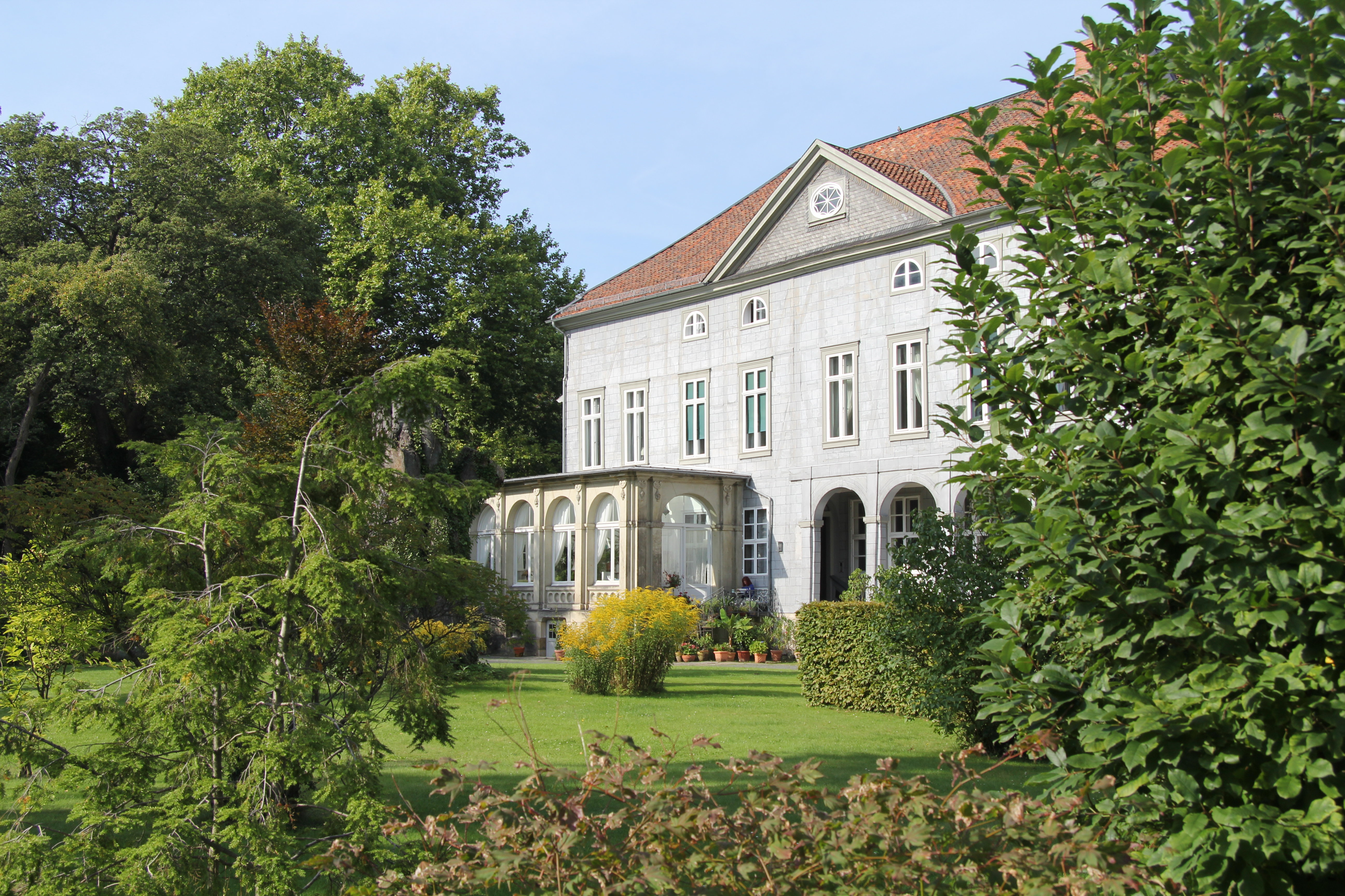 "Kleines Schloss" ("Little Palace") in Wolfenbüttel / Germany This is a photograph of an architectural monument.